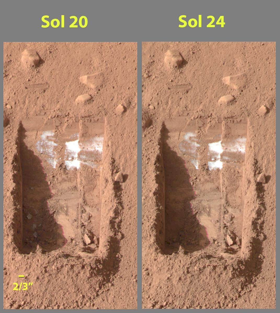 These color images were acquired by NASA's Phoenix Mars Lander's Surface Stereo Imager on the 21st and 25th days of the mission, or Sols 20 and 24 (June 15 and 19, 2008). These images show sublimation of ice in the trench informally called "Dodo-Goldilocks" over the course of four days. In the lower left corner of the left image, a group of lumps is visible. In the right image, the lumps have disappeared, similar to the process of evaporation. The Phoenix Mission is led by the University of Arizona, Tucson, on behalf of NASA. Project management of the mission is by NASA's Jet Propulsion Laboratory, Pasaden, Calif. Spacecraft development is by Lockheed Martin Space Systems, Denver. -From the website.